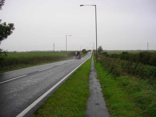 Ermine Street The modern A15 here follows the course of the old Roman Road that links London with Lincoln and York. This ancient highway was known by the Saxons as Ermine Street. It is believed to have been named after the Earningas, a "tribe" of people in the Cambridge area through which it passed.